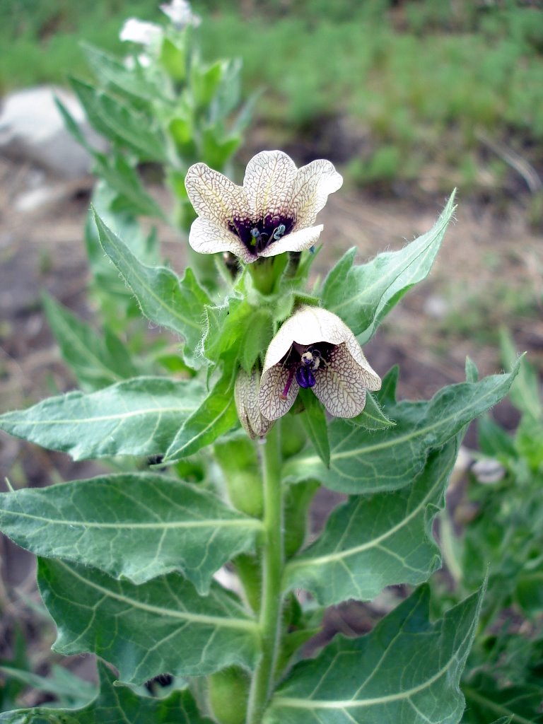 Hyoscyamus niger from Khangai Mountains, Mongolia.